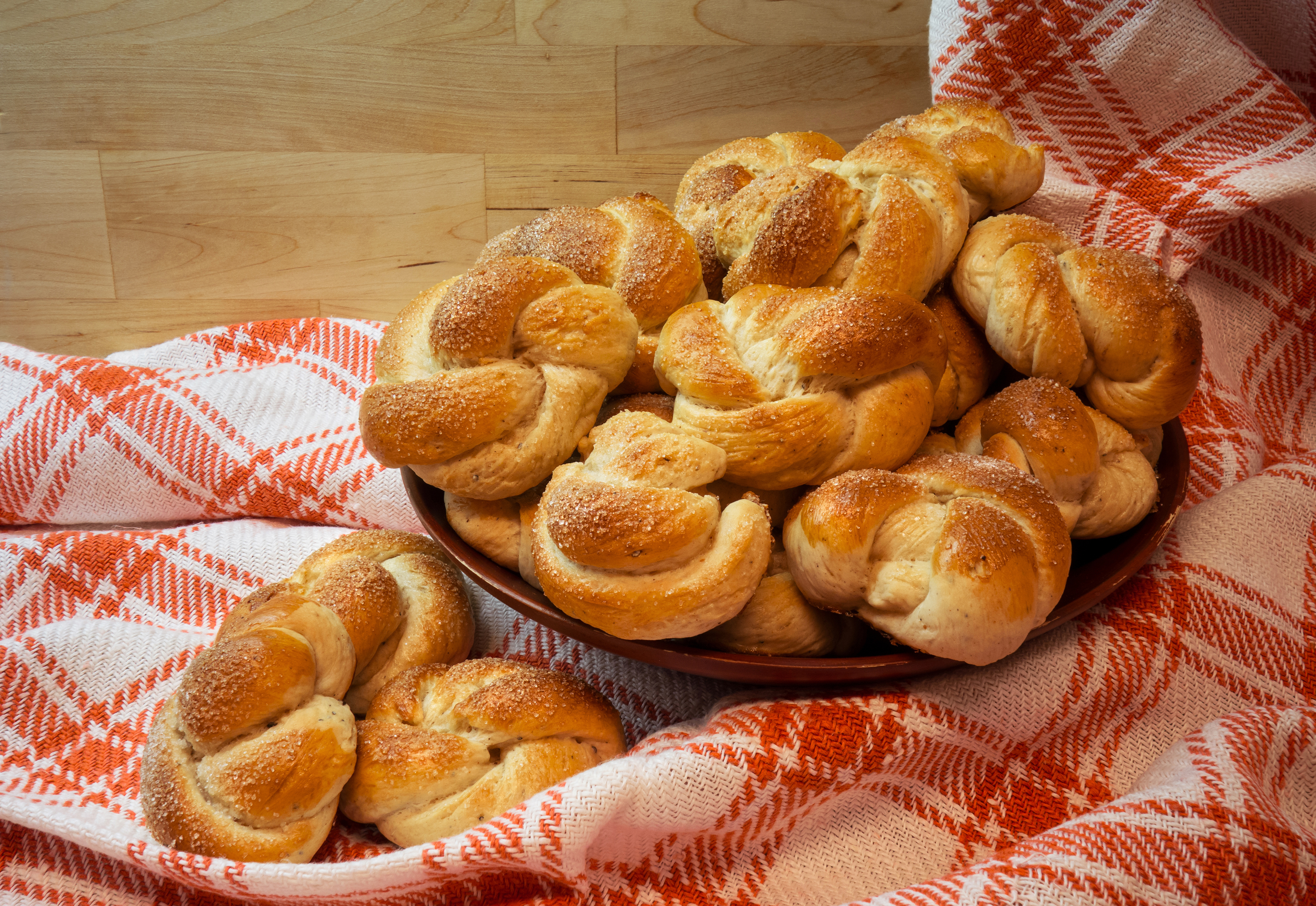 A wooden bowl of newly-baked cardamom buns on a checkered linen tablecloth in Lysekil, Sweden. Focus stacking of 6 pictures (using Photoshop).. Recipe (30-40 buns): Ingredients: 5 dl milk, 50 g yeast, 150 g butter, 1 dl sugar, ½ tablespoon salt, 2 generous tablespoons crushed cardamom, ½ tablespoon ground cinnamon, 800 g all-purpose flour, 1 egg. Directions: Melt butter in a cooking pot and add the milk. Heat or cool until 37 °C. Pour mix into a large bowl and add yeast. Stir until the yeast is dissolved. Add sugar, salt, cardamom and cinnamon to the mix. Stir well. Mix in the flour and knead dough on a lightly floured surface until smooth. Place in a large bowl and let rise to about double size, about 40 minutes. Knead dough again, cut into 30-40 pieces and form into buns. Place buns on a sheet pan covered with baking parchment paper. Let rise about 40 minutes. Glaze with a whipped egg and sprinkle with sugar. Bake in the middle of oven at 250 °C for about 5-10 minutes. Allow to cool on a grate.